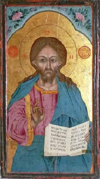 Jesus Christ, Saint Petka Church in Galichnik, icon from Nedelko from Rosoki 1770